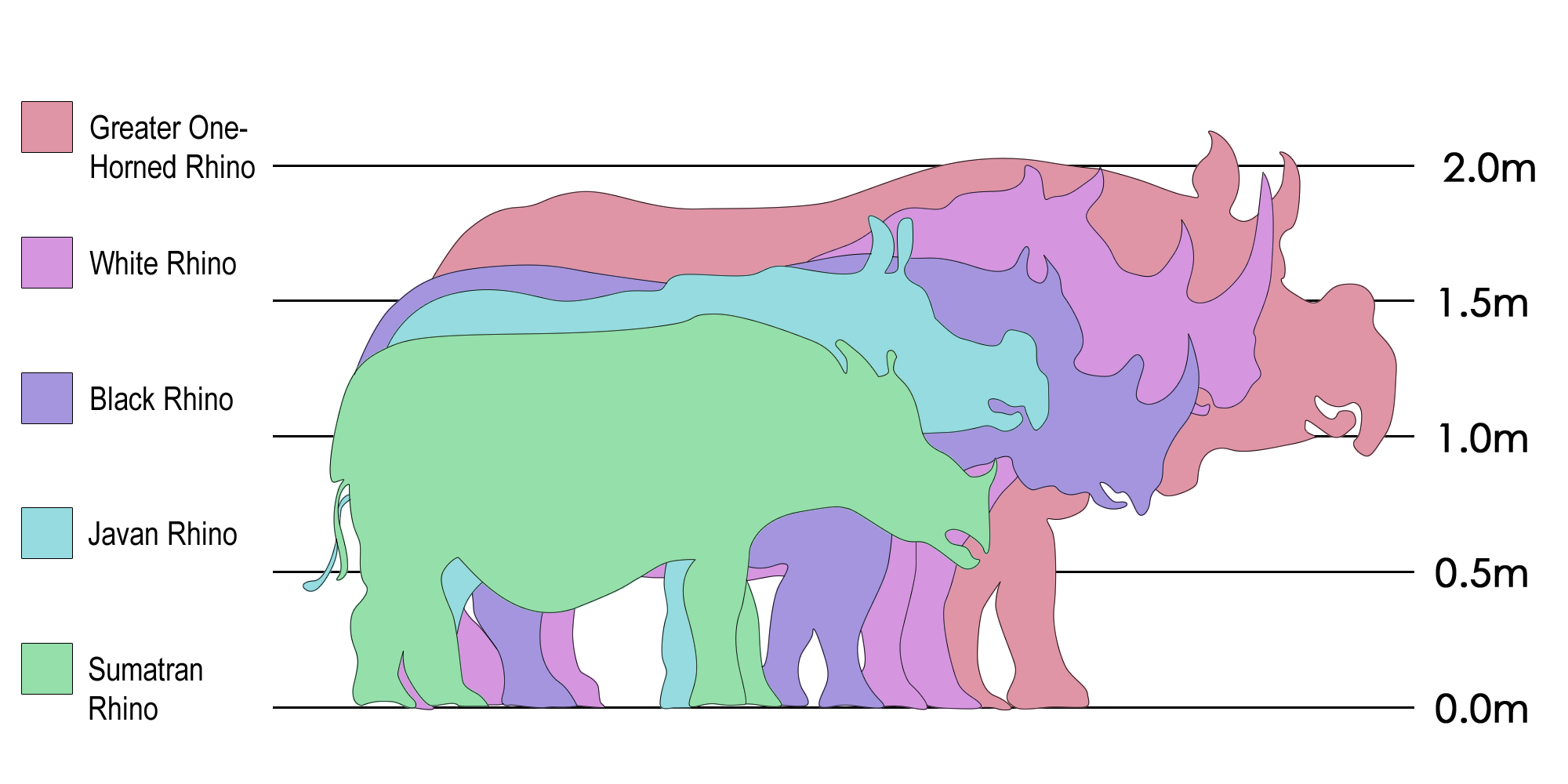 Rhino species size comparison Original text: Indian Rhinoceros, over 1.8m White Rhinoceros, 1.8m Black Rhinoceros, over 1.5m Javan Rhinoceros, 1.5m Sumatran Rhinoceros, 1.4m Comparison of rhino sizes (adult). Drawn by User:WikipedianProlific for the English wikipedia. Based in part on Created in adobe photoshop 7.